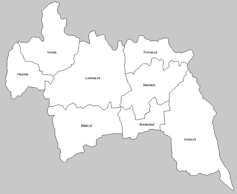 Parishes in Aneby municipality